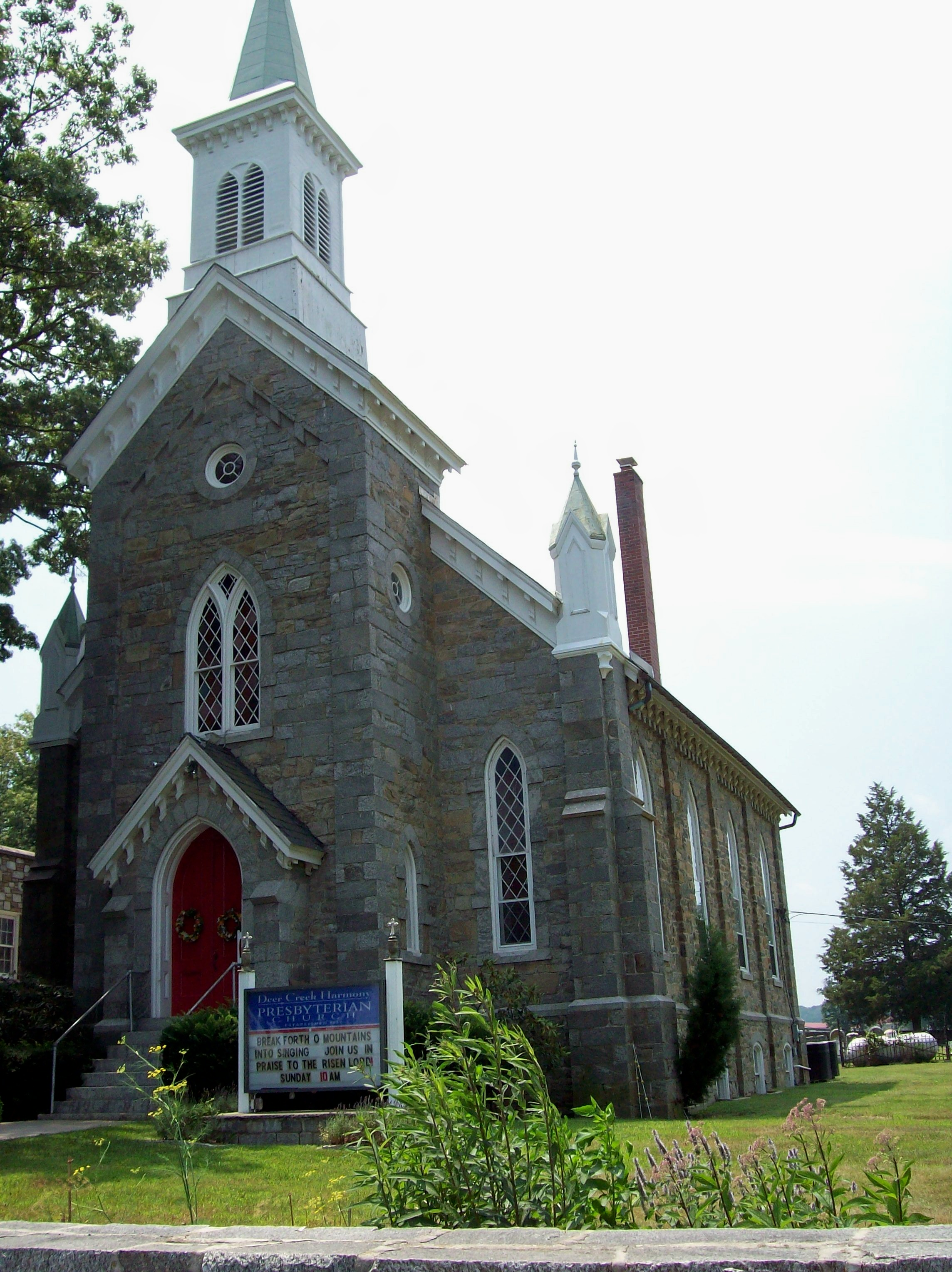 A beautiful stone structure outside of the village of Darlington, Deer Creek Harmony Presbyterian Church stands firm in the middle of July 2011.